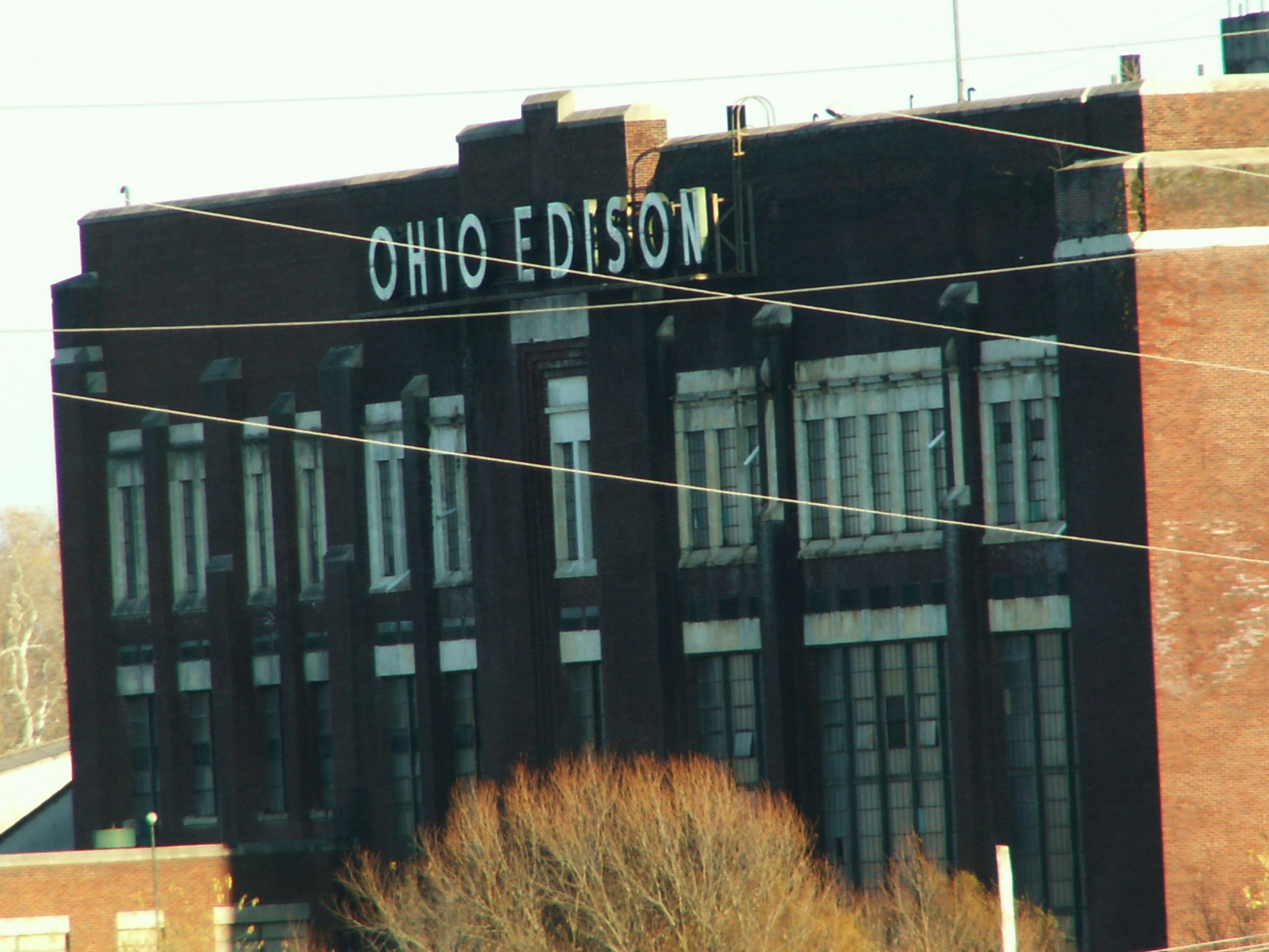 I apologize for this photo. Not great. But it's very difficult to get a clean shot of the old Ohio Edison building......overgrown trees in front, and busy highways on three sides. Someday I may get pushy and try to drive in front of the building. Bail me out, eh?